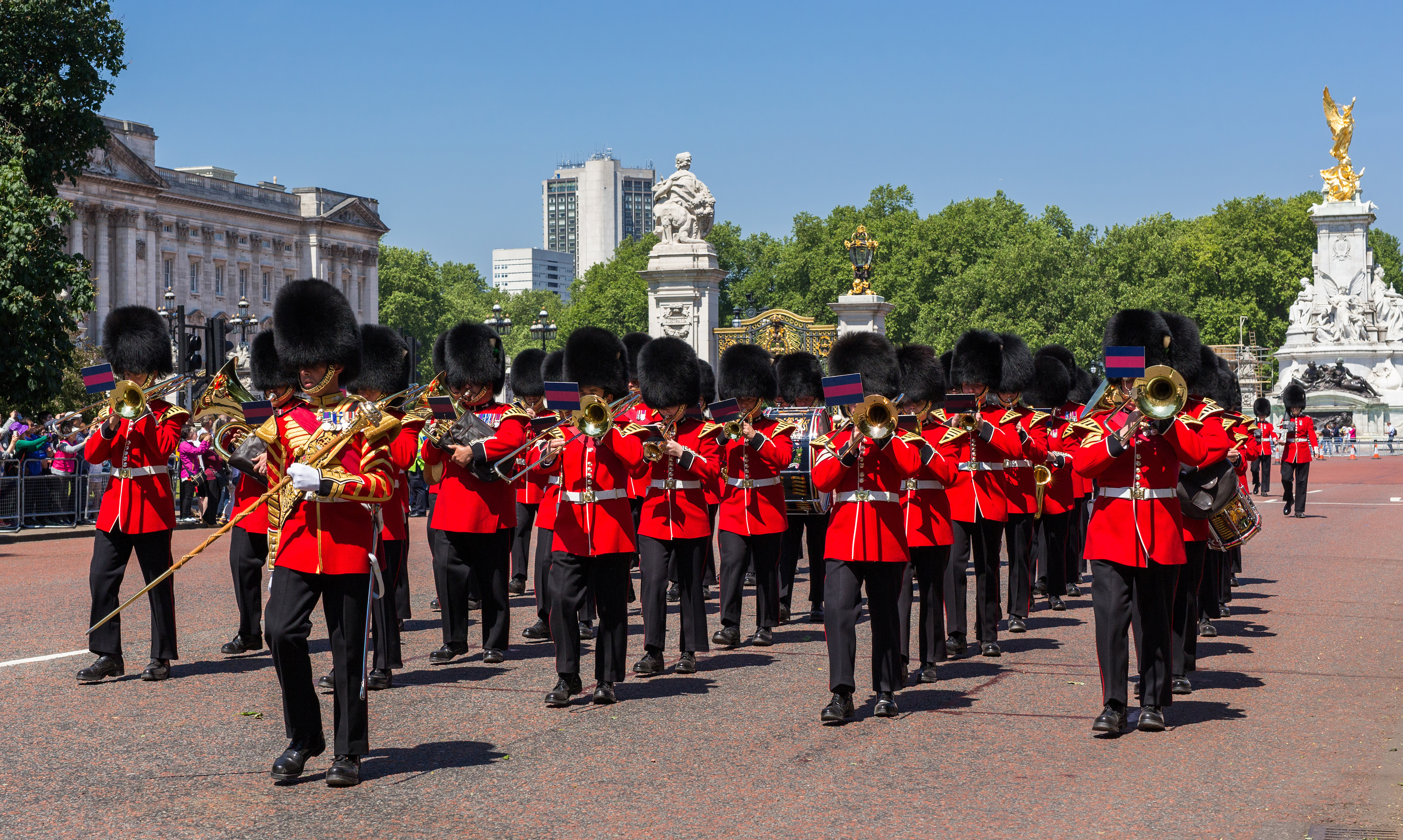 The Band of the Welsh Guards as they march south from Buckingham Palace towards Birdcage Walk in London, England.